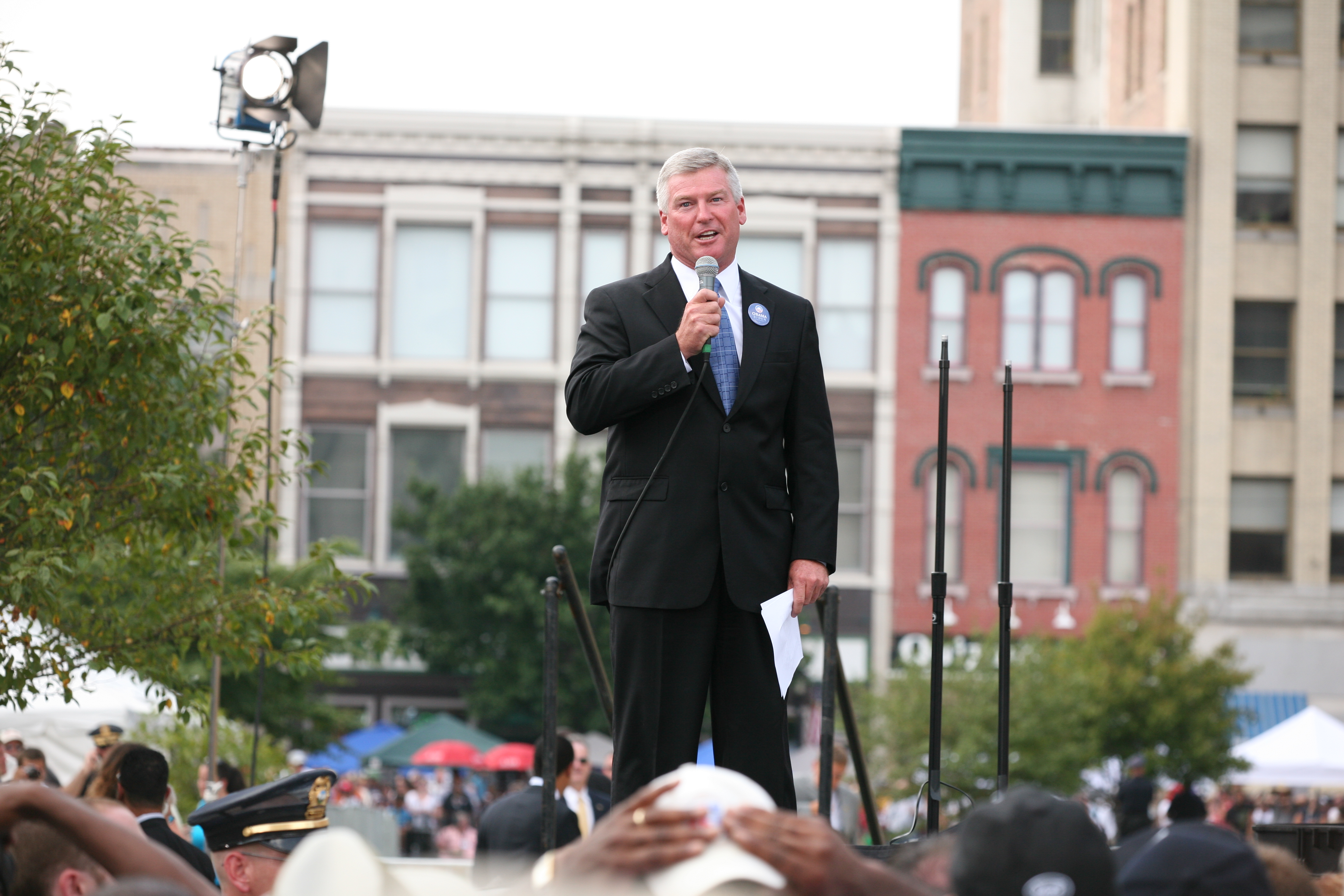 Timothy Davlin mayor of Springfield, Illinois